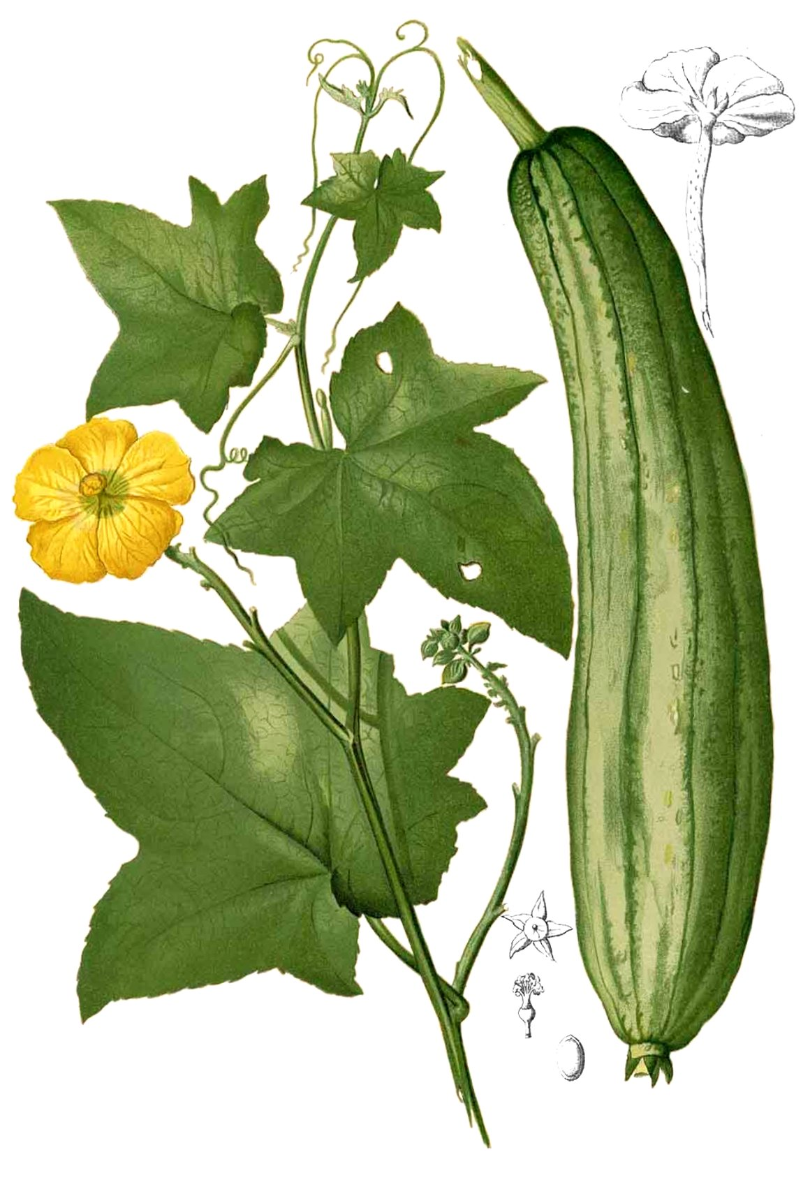 Plate from book